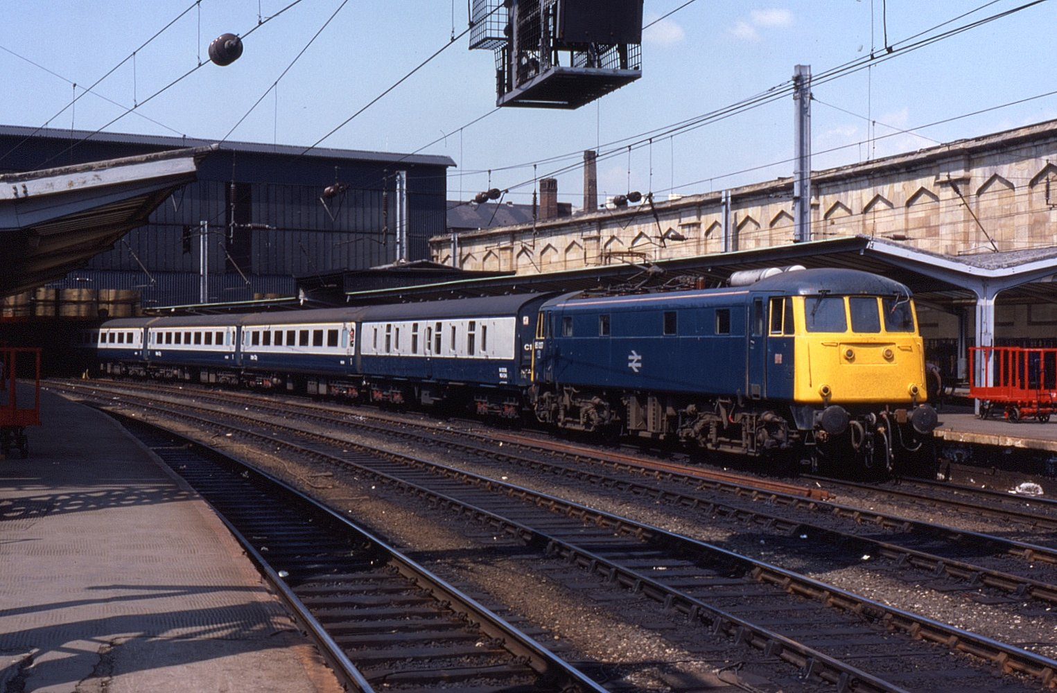 Taken during a two week All Line Rover rail holiday in the summer of 1984. Seen here at Carlisle on 24 July 1984, 85037 is seen on a WCML southbound service.